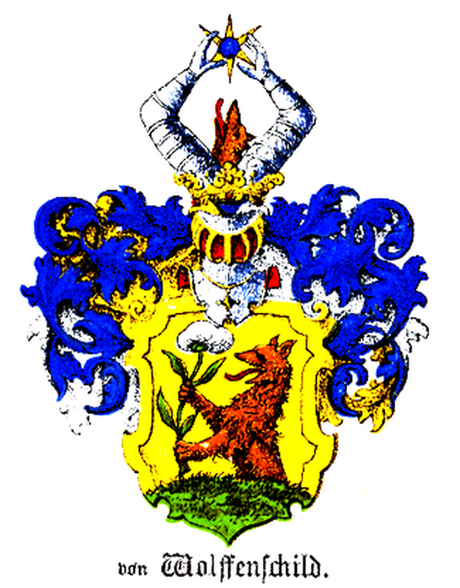 Coat of arms of Wolffenschild family